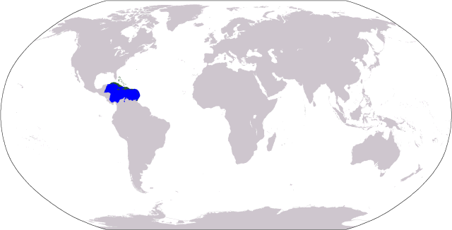 World map depicting Caribbean, including: Caribbean Sea (blue), as delineated by International Hydrographic Organization (IHO) (PDF) West Indies (green), including Bermuda Map adapted from PDF world map at CIA World Fact Book